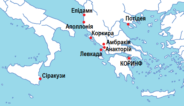 Map of the Corinthian Colonies